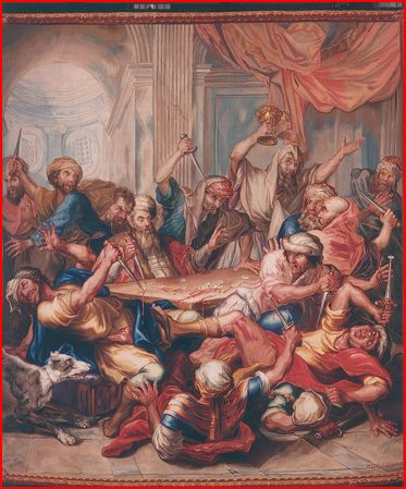 Tapestry by Frans Van der Borght (Brussels, 1770)